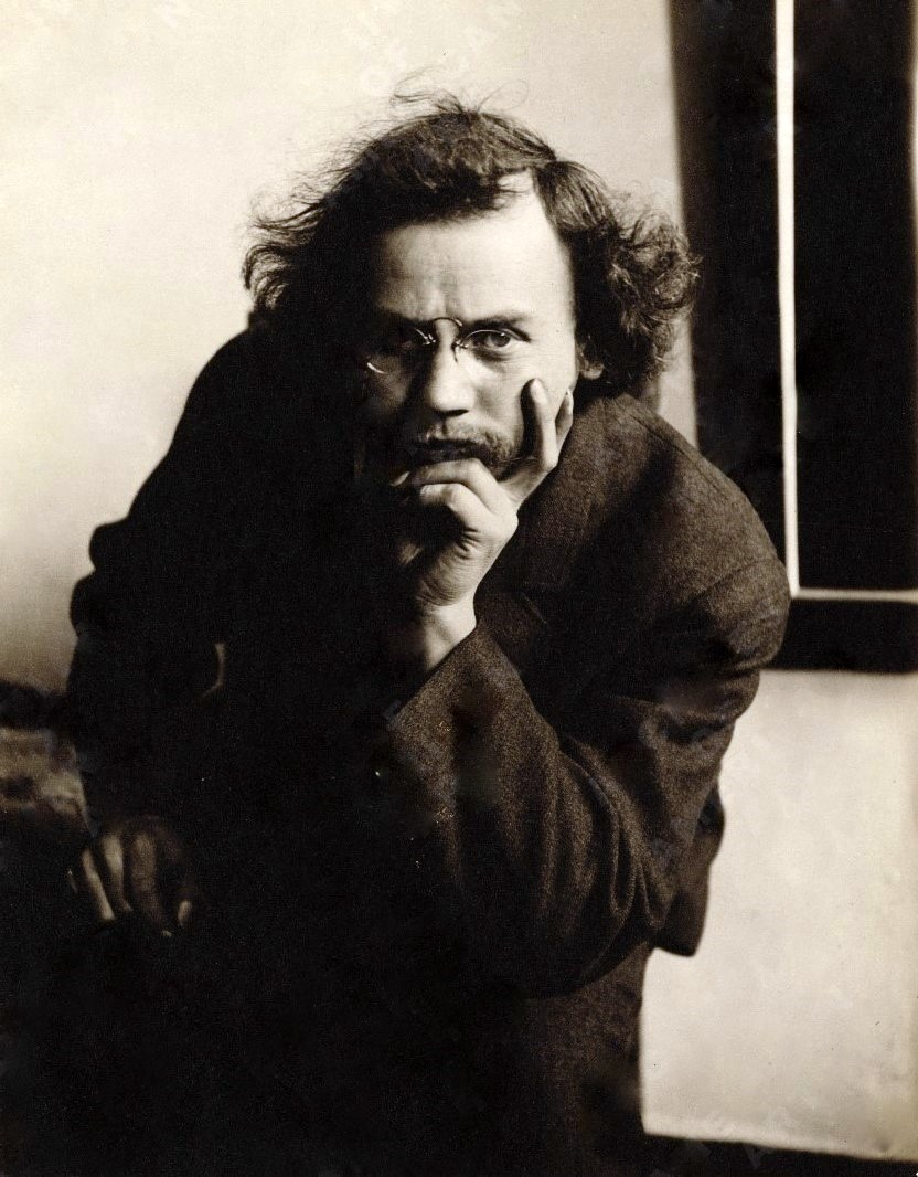 Identification on verso (handwritten): BJO Nordfeldt ca. 1900 Chicago